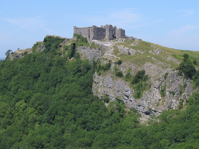 Carreg Cennen seen from the southeast. When viewed from the bridle path walk in the square to the southeast it becomes obvious why the castle was built here. Anyone attacking from the south faces an impossible climb.